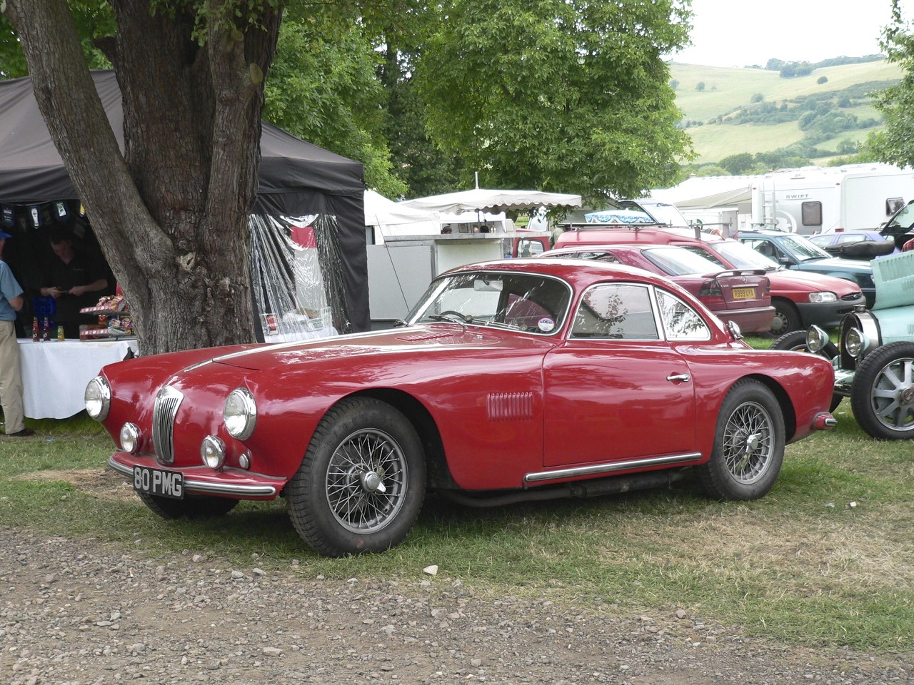 Frazer Nash Continental at Prescott, 2006-08-06